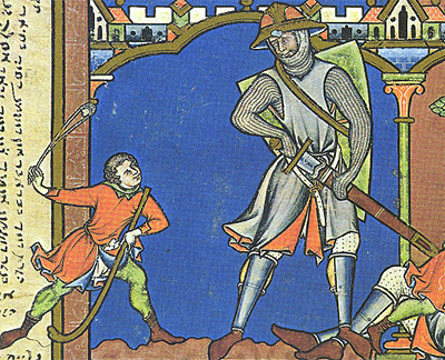 David and Golias